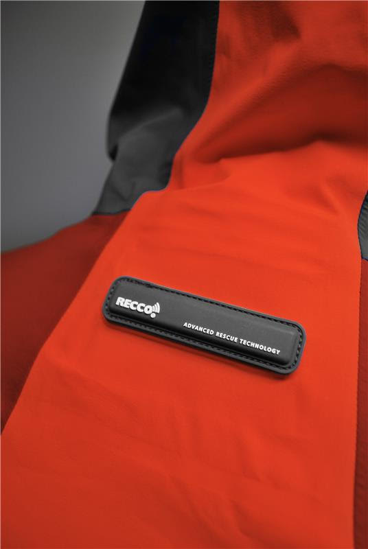 The picture shows a reflector on a jacket